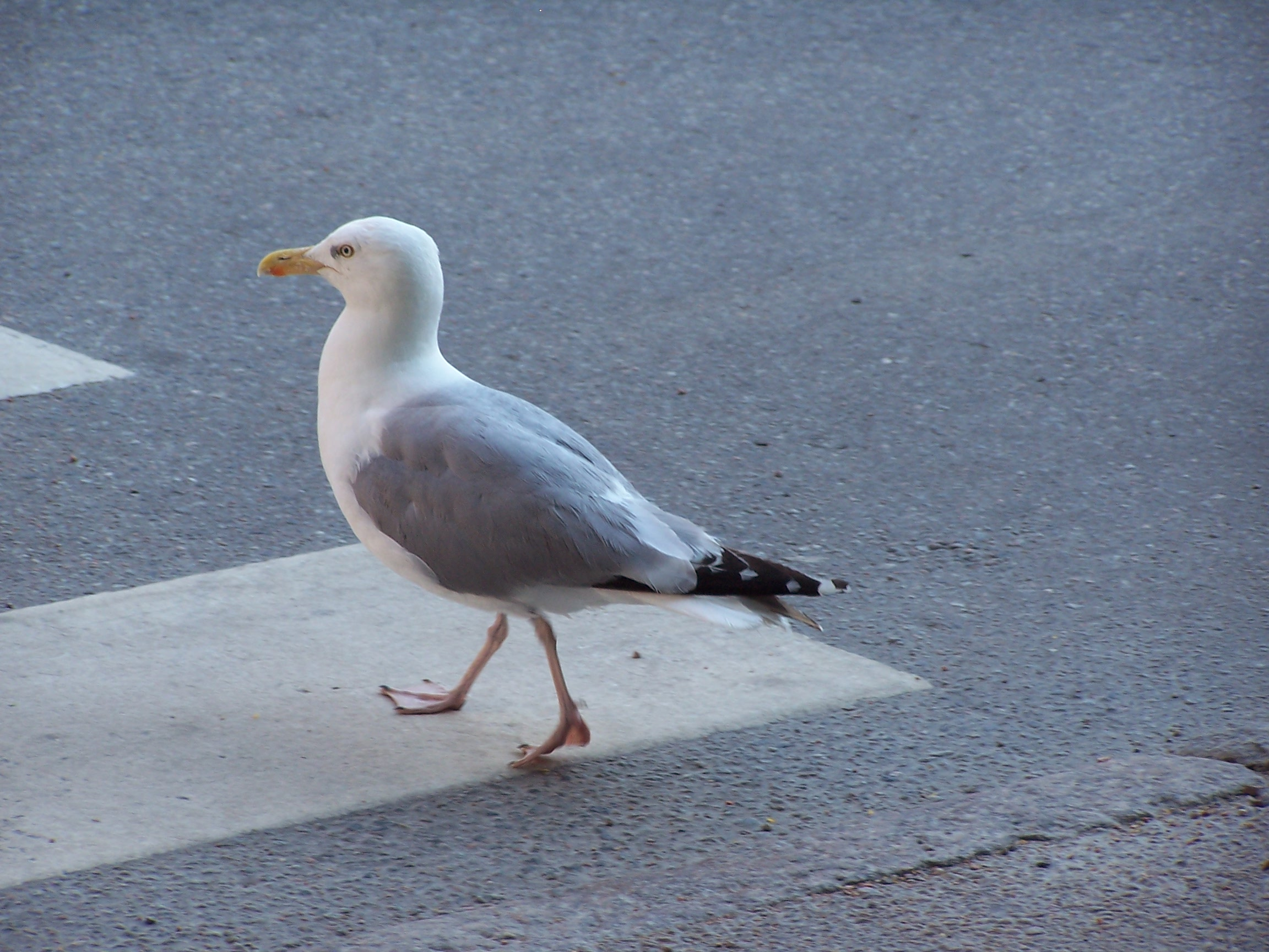 A seagull can be well adapted to the city environment. Photo taken in Karlskrona from Hoglands Park in the corner of Parkgatan/Landbrogatan.